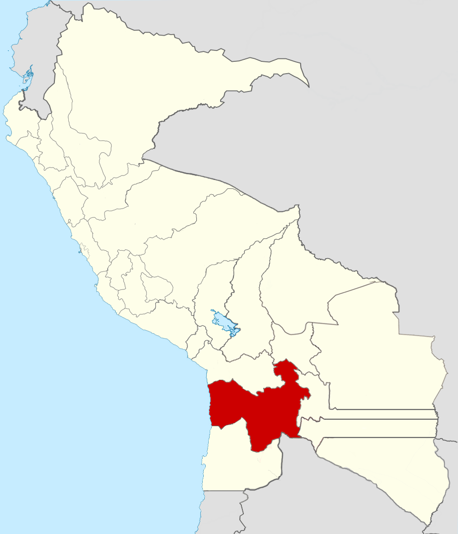 Estado de Tarapotosí de los Estados Unidos Perú-Bolivanos